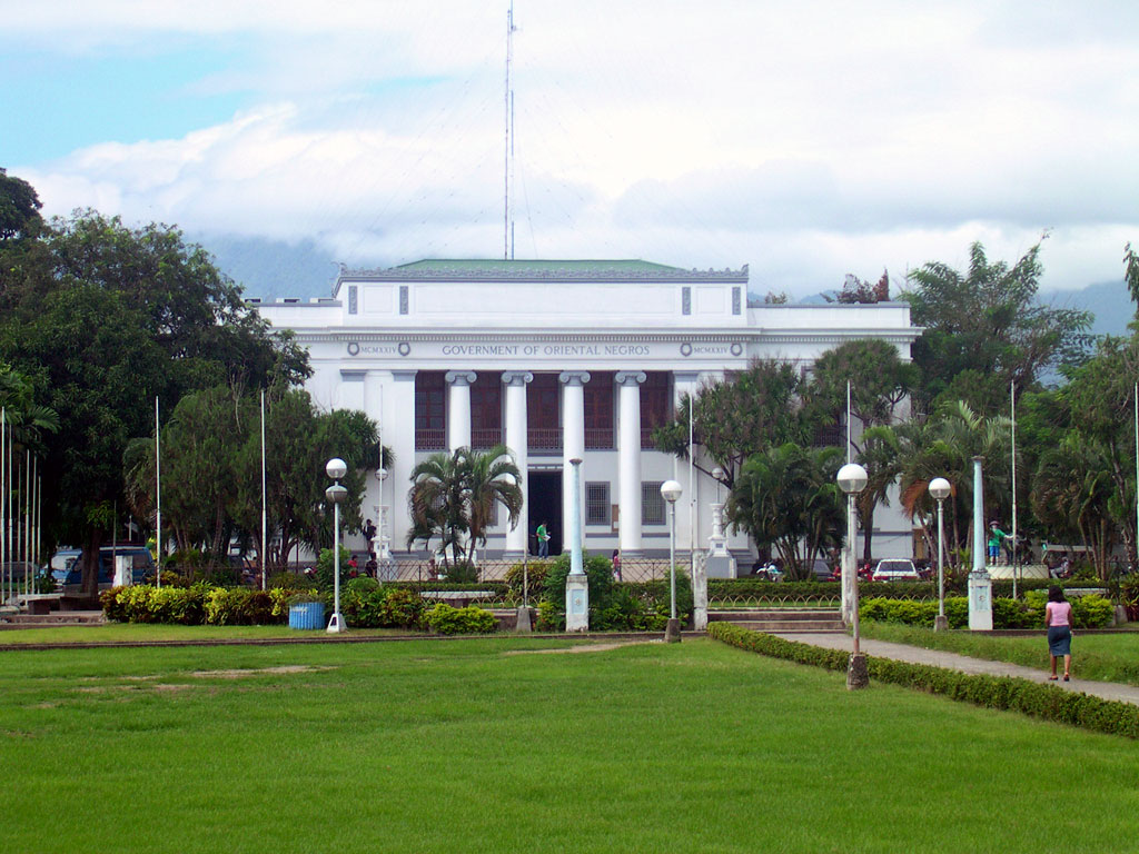 Capitol building of [Negros Oriental at Freedom Park in Dumaguete City.